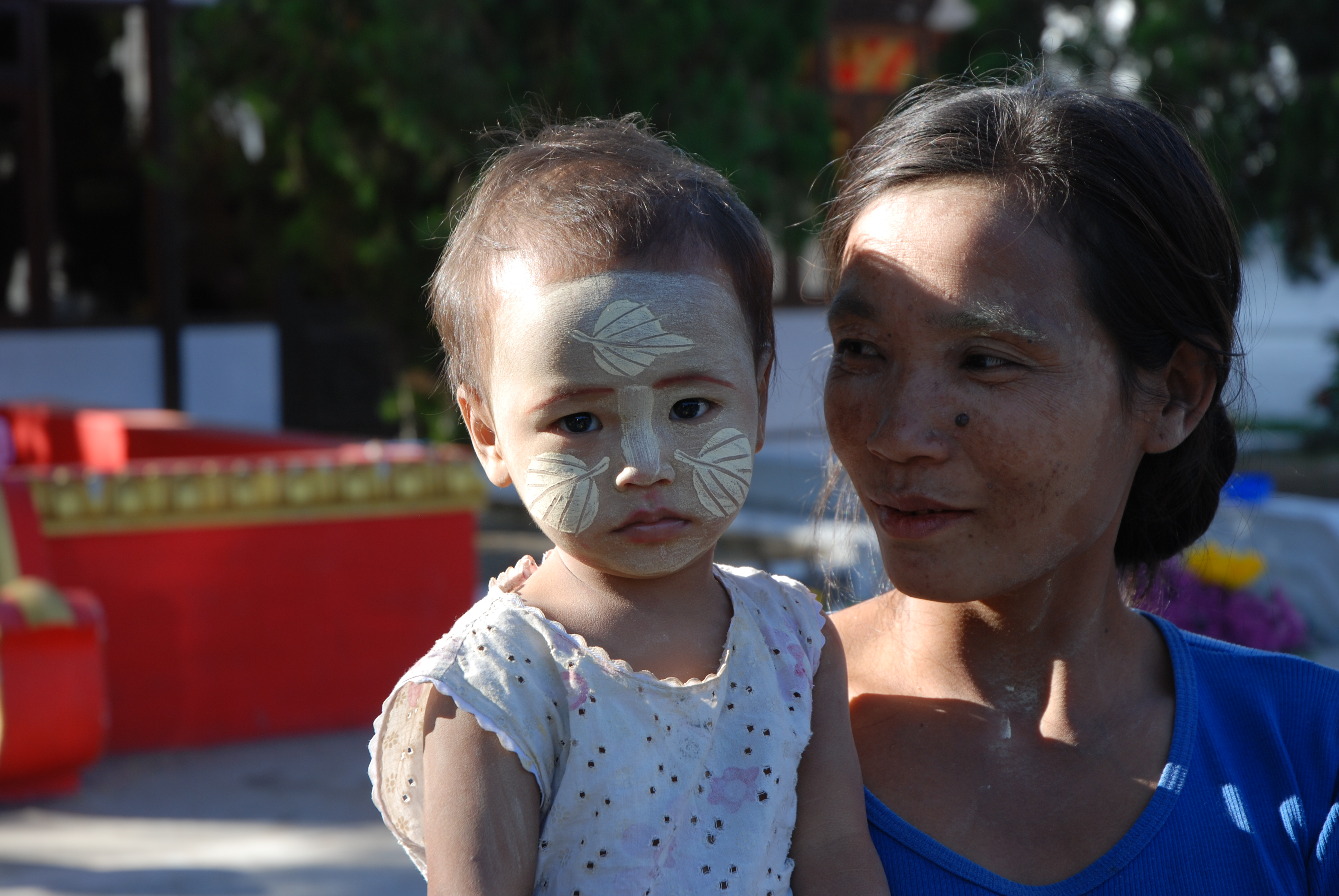 Woman with child in Mandalay, Burma)